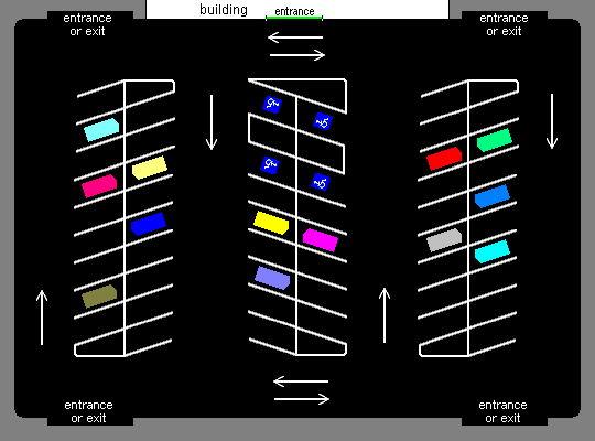 Diagram of example parking lot layout with angle parking as seen from above. White arrows show direction of allowed travel in each lane. Several parking spaces closest to the building are reserved for the handicapped. Cars of various colors are shown parked in some of the spaces. The obtusely pointed end indicates the front end of each car. H Padleckas created this image file, completed by the middle of September 2006, especially for use in the article "Parking lot" in Wikimedia. H Padleckas 22:21, 16 September 2006 (UTC) In April 2007, Shadowlink1014 revised (and uploaded) the diagram to insert extra space between adjacent handicapped parking spaces.